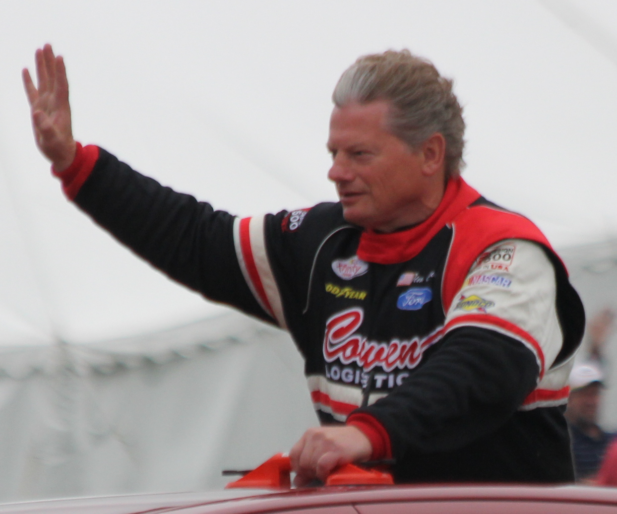 NASCAR driver Tim Cowenl waves to the crowd during drivers introduction at the Xfinity Series race at Road America.